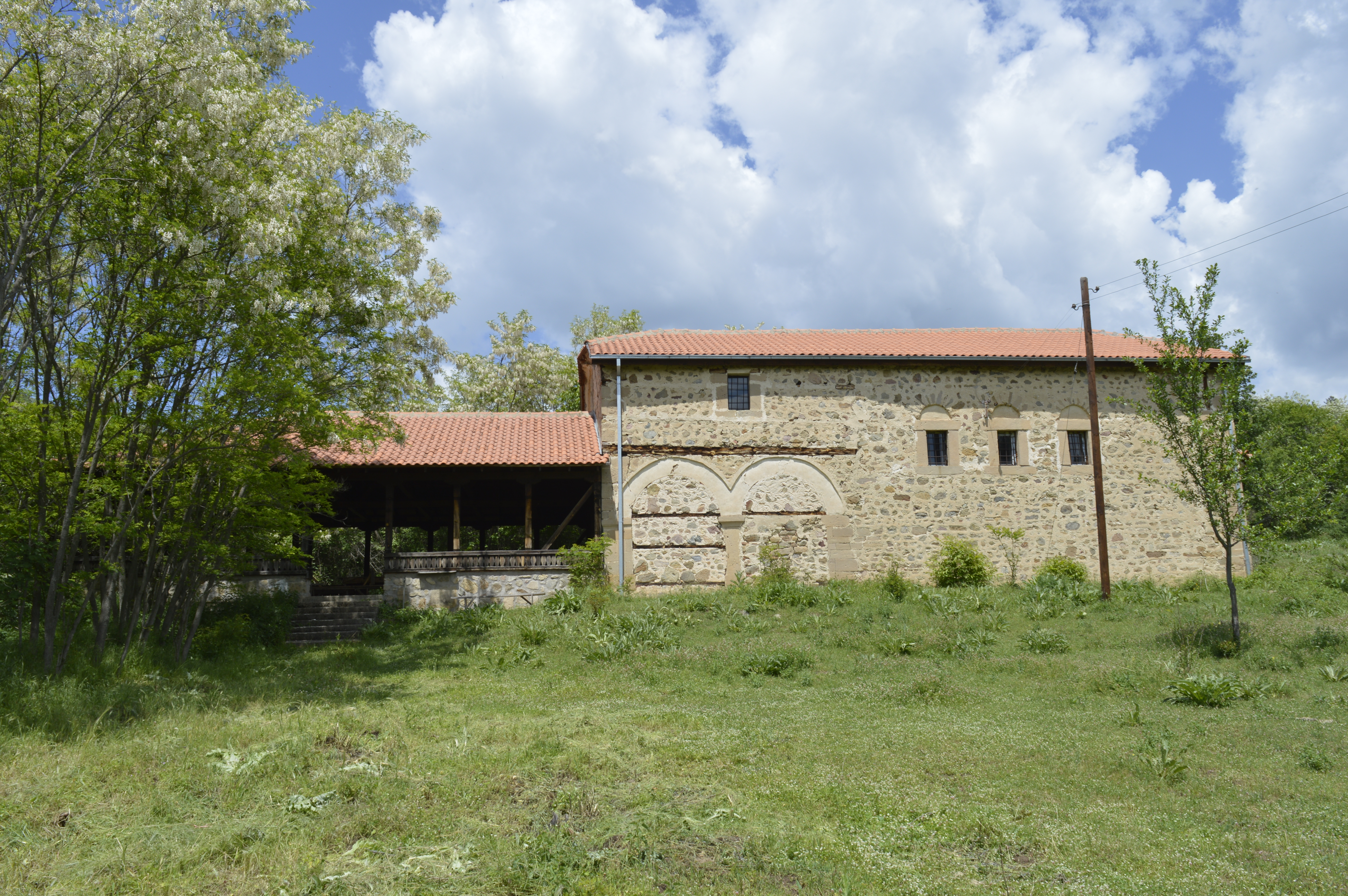 View of the church in the village Star Istevnik